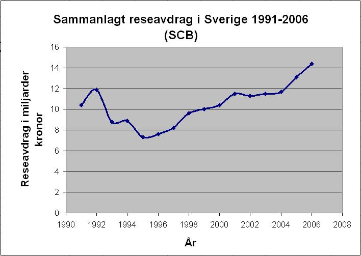 (Tax deductions for travels in Sweden 1991-2006 The tax deduction is the total yearly deductions made in Sweden in billion swedish crowns. The value has not been adapted for inflation. )